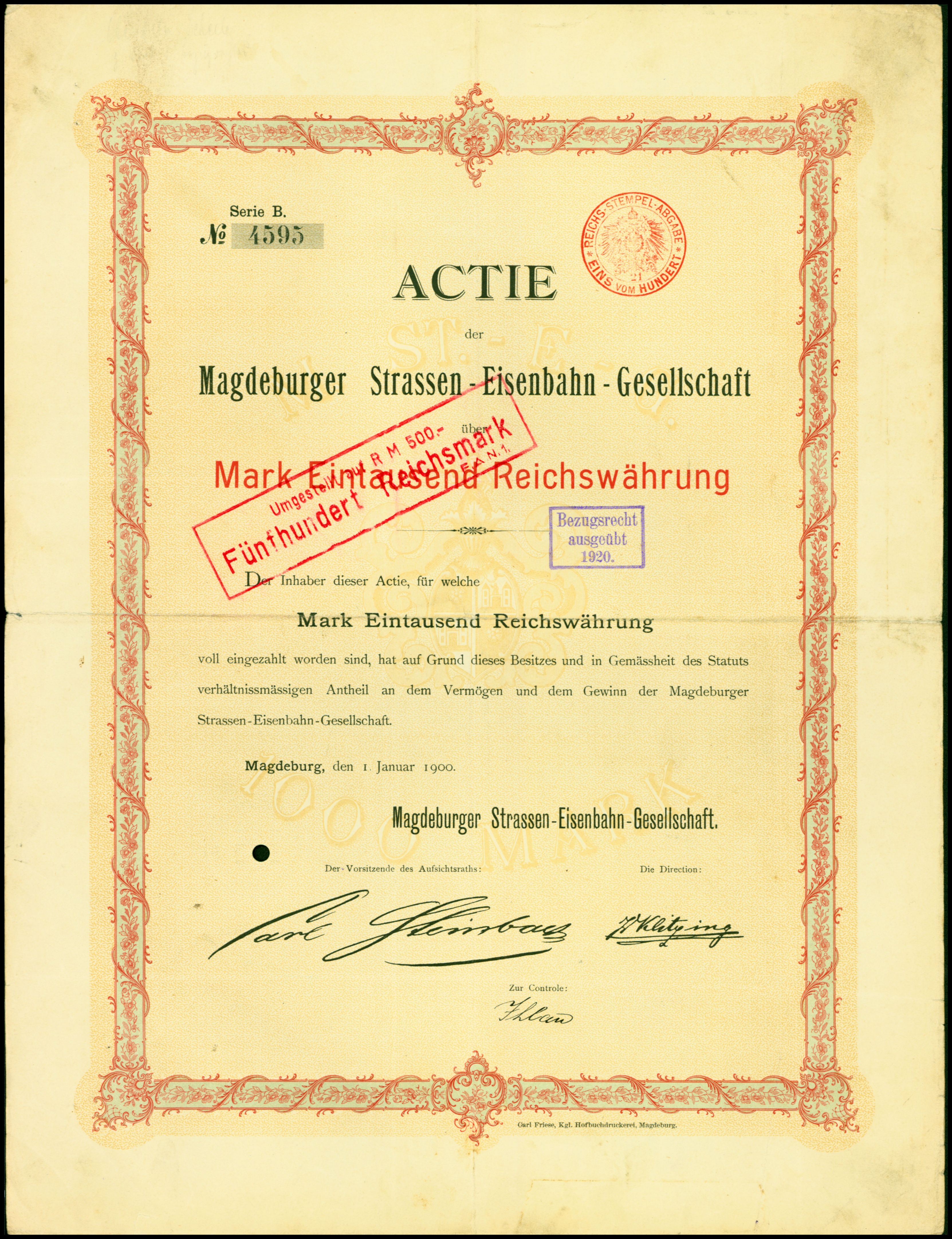 Share of the Magdeburger Strassen-Eisenbahn-Gesellschaft, issued 1. January 1900